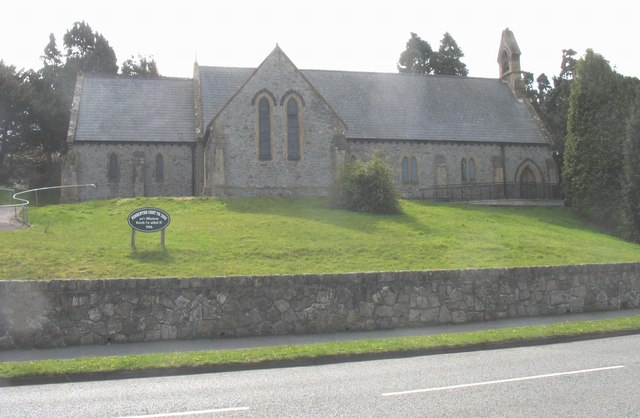 St Mary's parish church, Llanfair-is-Gaer, Gwynedd